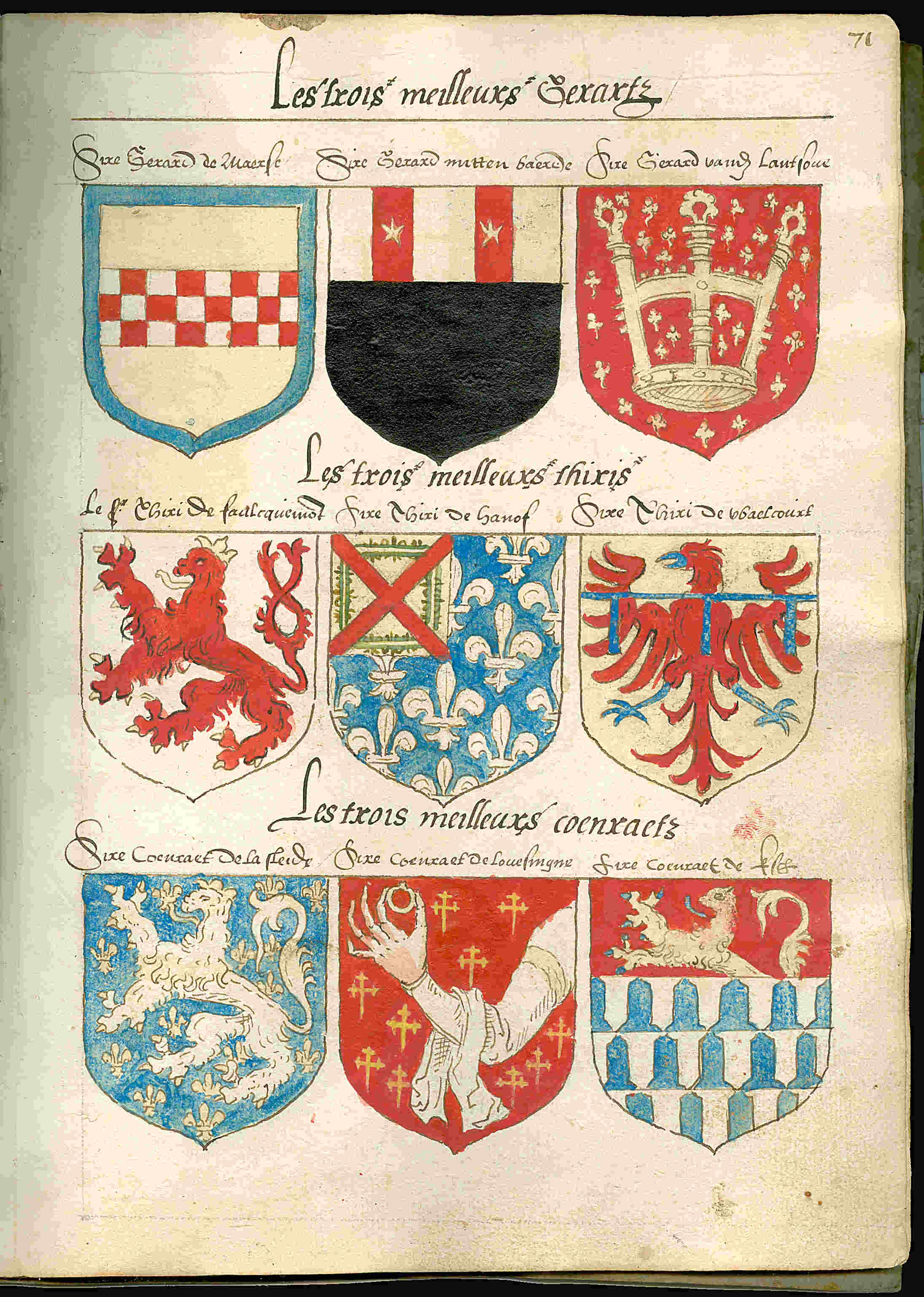 Page 71 from a copy of the Beyeren armorial / Wapenboek Beyeren from ca. 1600. The original Beyeren armorial from 1405 can be viewed at the website of the KB